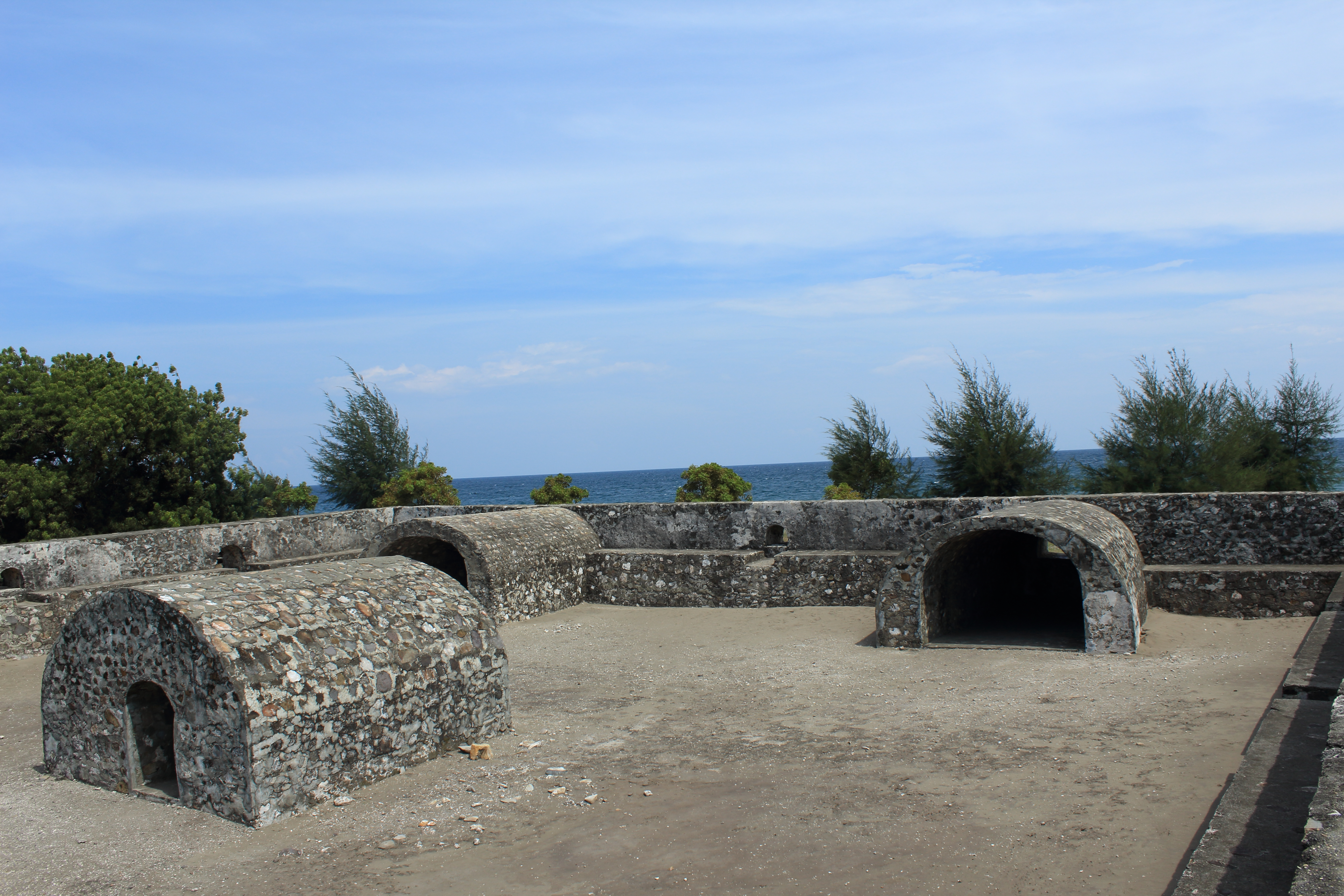 Interior of Indra Patra Fort, Aceh